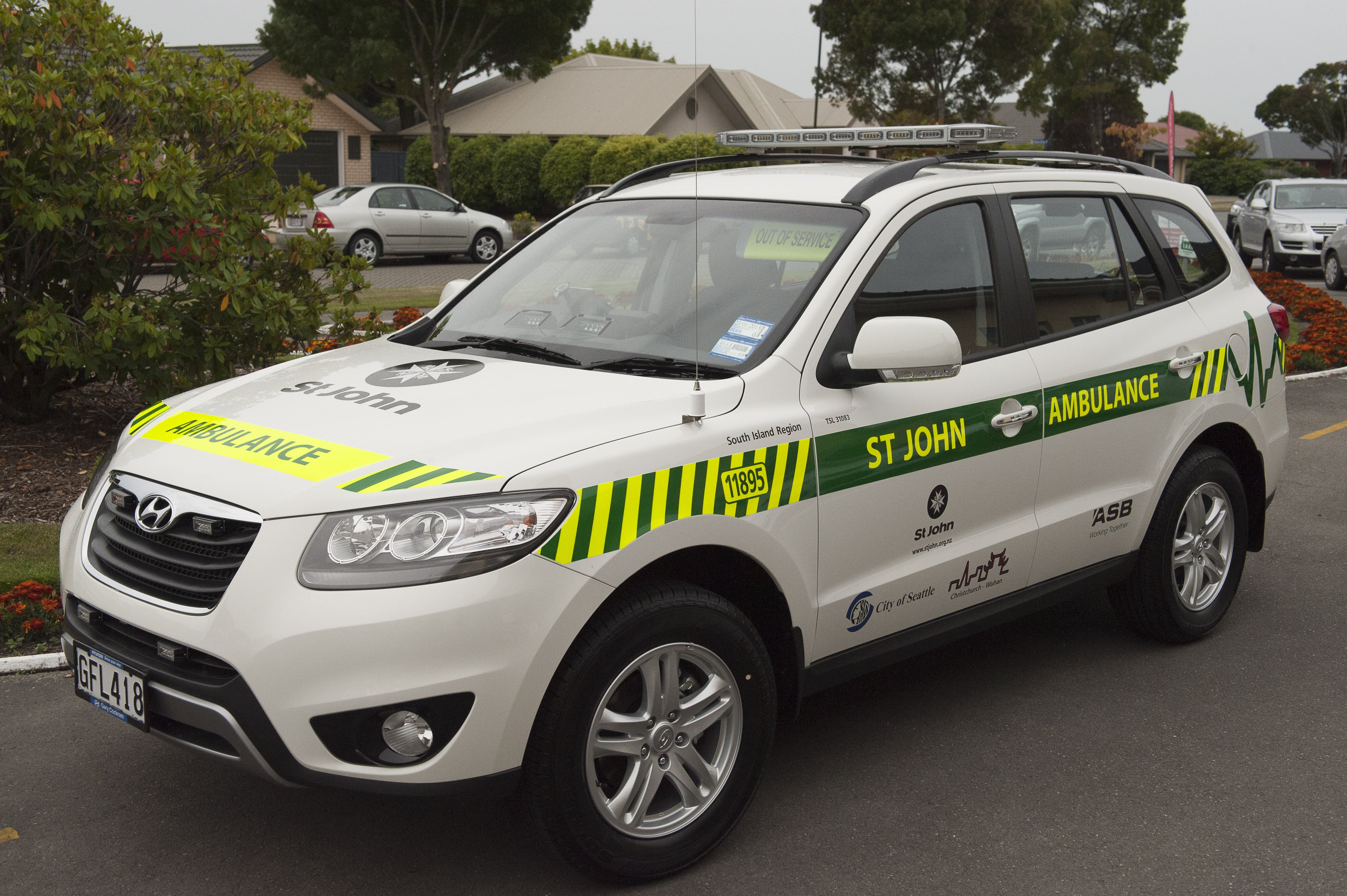 6pm - Presentation of a Rapid Response Vehicle to St. John Ambulance Service The Sister Cities Associations of Christchurch, Seattle and Wuhan presented the St. John Ambulance Service of Christchurch with a Rapid Response Vehicle purchased with funds raised by the respective cities. U.S. Ambassador Huebner's Blog: I am in Christchurch participating in services marking the one-year anniversary of the tragic February 22, 2011 earthquake. I have been joined by several of my American colleagues including Al Dwyer from USAID, who headed the large US disaster response team that quickly airlifted into Christchurch to assist with search and rescue operations. I asked Al to return to New Zealand to lead our delegation with me because of the critical role he played in the days immediately following the quake. Yesterday I attended the unveiling of the Tomb of the Unknowns. This morning Al and I participated in a commemoration service at Latimer Square, on the spot where the American and other working USAR teams camped last February. I then spoke at the opening of a commemorative garden in Christchurch’s beautiful Botanic Gardens, one of my favorite places in the city. And now, as I record this introduction, Al and I are walking to Hagley Park for the main civic service of remembrance. Read more